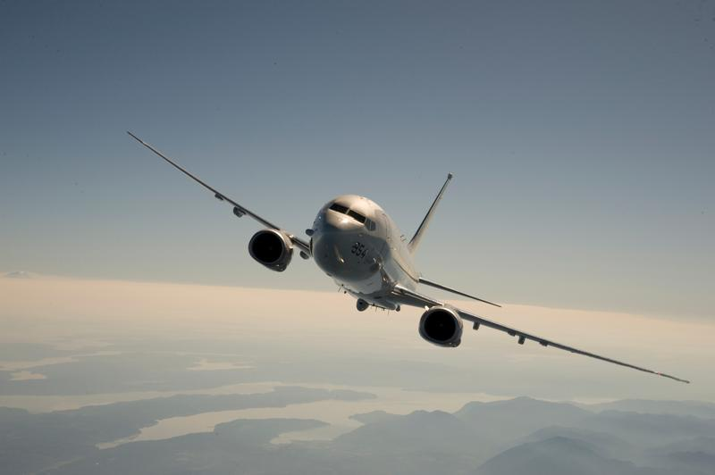 P-8A in flight over the Pacific Northwest